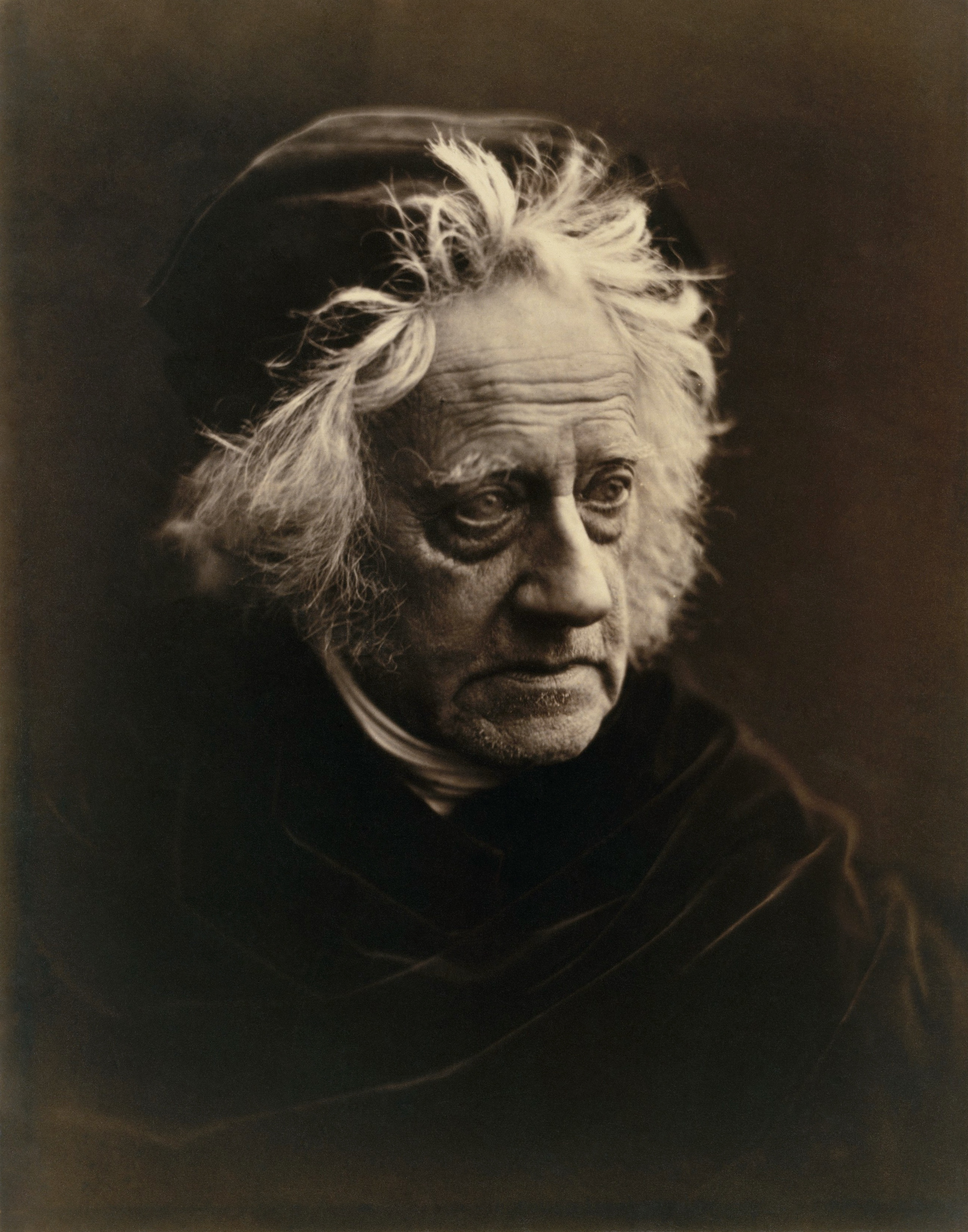 John Herschel (1815-1879), photographed by Julia Margaret Cameron in April 1867. Image: 31.8 x 24.9 cm (12 1/2 x 9 13/16 in.) Mount: 39.9 x 32.9 cm (15 11/16 x 12 15/16 in.)